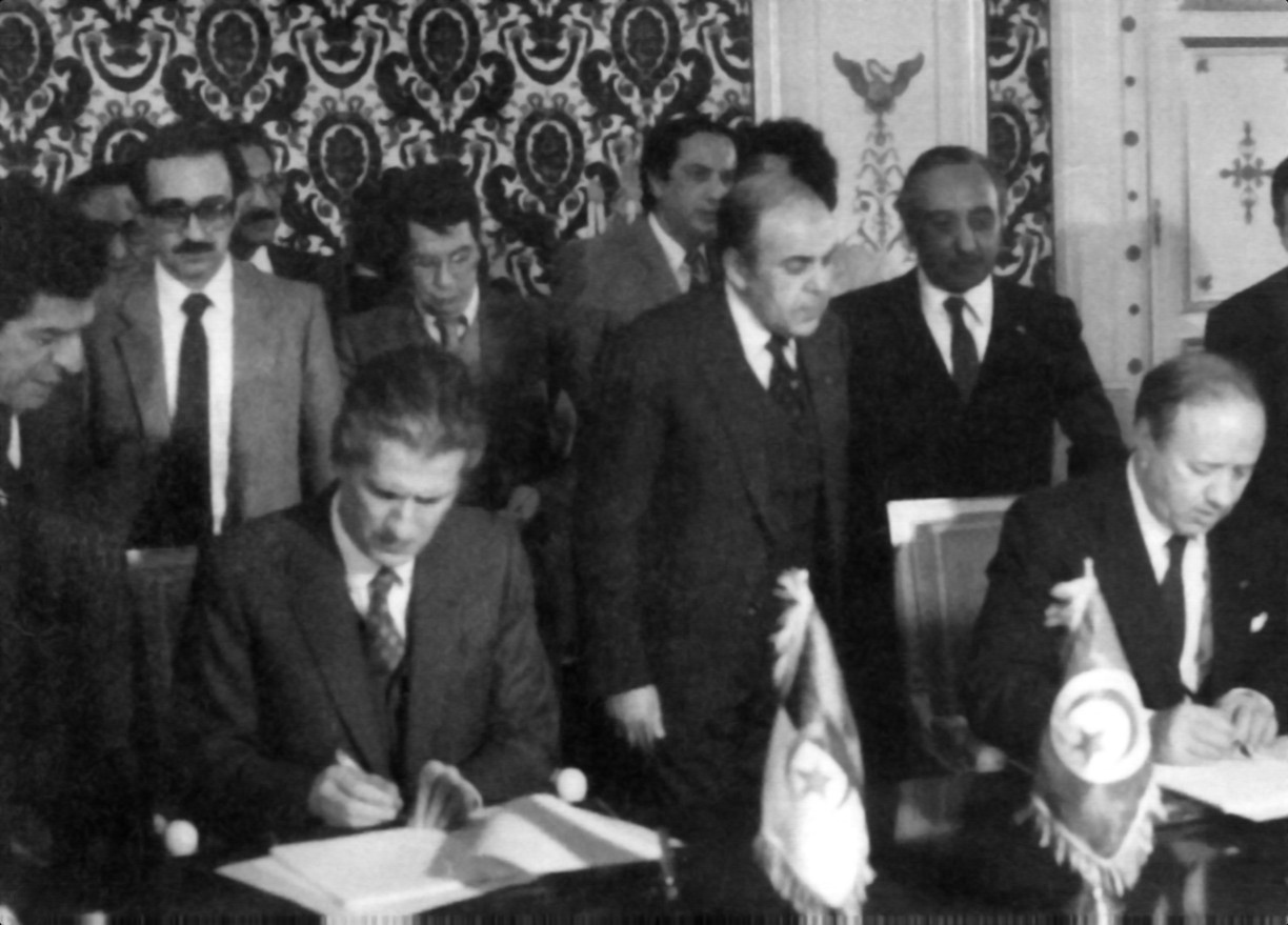 Essebsi et Ahmed Taleb Ibrahimi rédige le traité de fraternité et de concorde qui sera ensuite signé par les président de la Tunisie et l'Algérie, le 19 mars 1983.